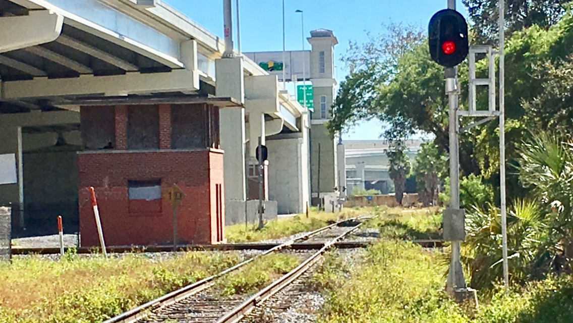 Abandonded Tampa Northern Railroad Tower just east of Ybor City. It was built in 1959 replacing an earlier wooden tower. The towers were built to govern the crossing of the Tampa Northern Railroad and the Atlantic Coast Line Railroad mainline. It was become obsolete due to more advance rail signalling. The tower was abandoned around 1984.